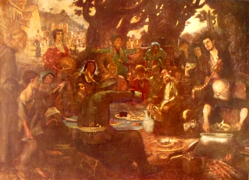 Mtskhetoba. Mose Toidze 1901